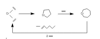 Metallacyclic intermediates in the chromium-catalyzed trimerization of ethylene to 1-hexene